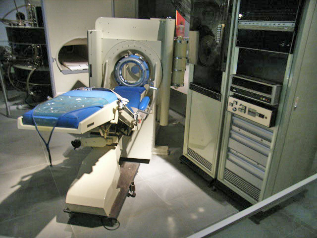 original photograph by philip cosson showing the first commercial CT head scanner Image uploaded from the English Wikipedia.